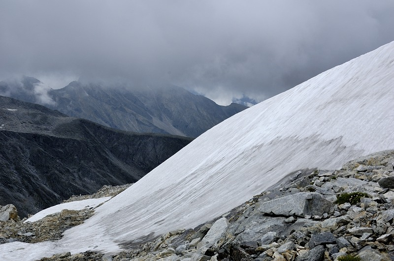 Firn field on the top of Säuleck (August)